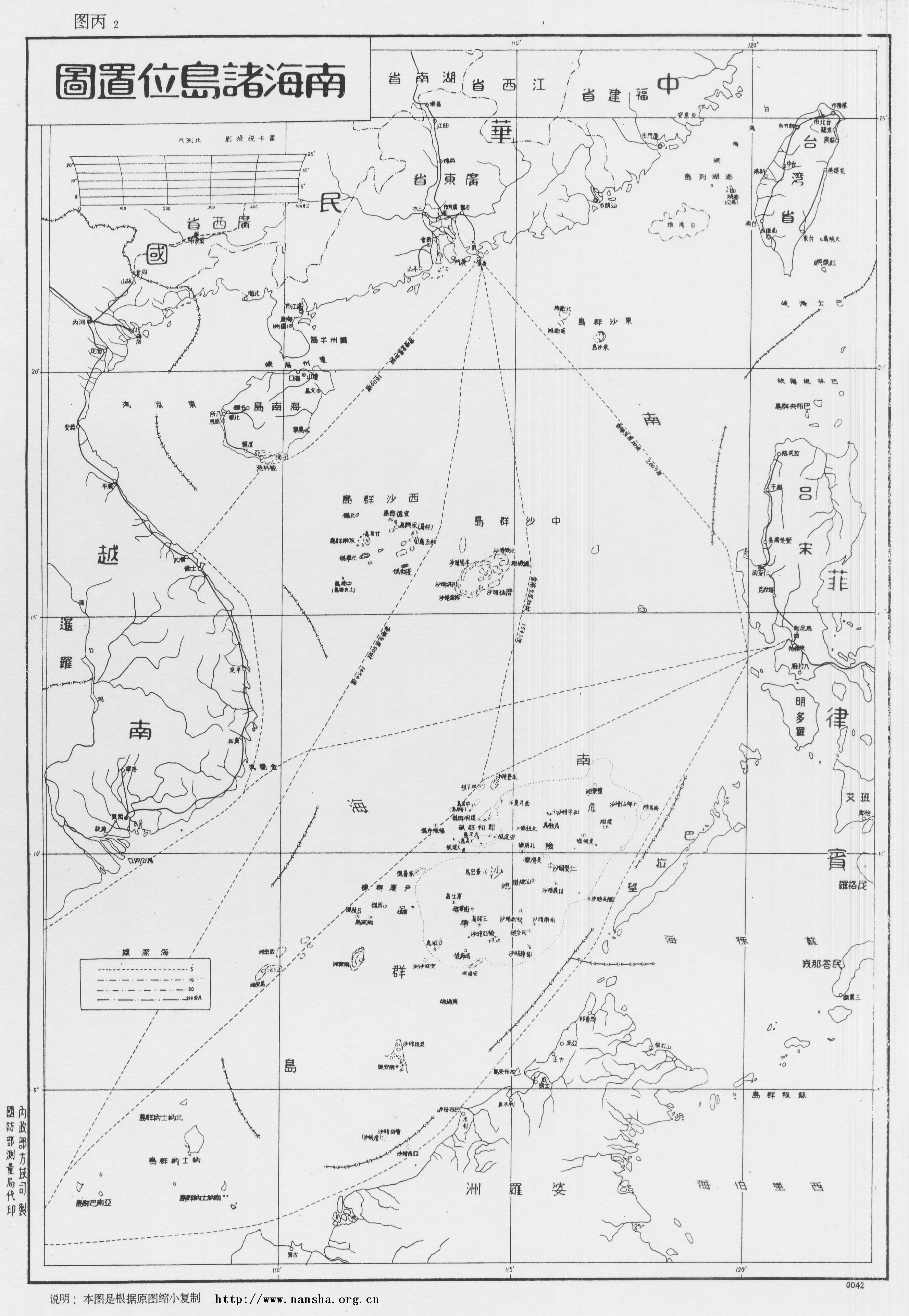 Map of the South China Sea, Secretariat of Government of Guangdong Province. January, 1947. Left margin written as: Made by Territory Department of Ministry of the Interior, printed by Bereau of Surveying of Ministry of Defence. Now in Sun Yat-sen Library of Guangdong Province, China, this map describes Dongsha Islands, Xisha Islands and Zhongsha Islands in details. Every island has its name in Chinese and English, with depth of sea marks and descriptions as following: "November of 35th year of the Republic (A.D. 1946), Executive Yuan ordered the Navy Command Headquarter and Ministry of the Interior to assist Guangdong government to accept Nanhai Zhudao: ROCS Taiping, ROCS Zhongye to accept Tuansha Qundao, ROCS Yongxing, ROCS Zhongjian to accept Xisha Qundao. The mission is completed in December of the same year. In honor of the actions of Taiping Ship and Yongxing ship, Chang Island (長島) is renamed to Taiping Island (太平島), and the Lin Island (林島) is renamed to Yongxing Island (永興島) under orders. The Xiniao Island (西鳥島) is also called Spratly Island. Because it is located in the far south, so the Goverment renames it to Nanwei Island (南威島). The Ministry of the Interior adjusted the names of the islands according to their locations in the South China Sea, so changed Tuansha Islands (團沙群島) (i.e. Xinnan Islands (新南群島) by Japanese, Spratly Islands by Westerners) to Nansha Islands (南沙群島), and the former Japanese Nansha Islands (南沙群島) is renamed to Zhongsha Islands (中沙群島). The other islands and reefs are named after the historical diplomats to the Nanyang, in memory of them." 中文（中国大陆）: 《南中国海图》1947年正月广东省政府秘书处编制。左侧写明：内政部方域司制，国防部测量局代印。现藏于广东省立中山图书馆。 图中详绘了东沙群岛、西沙群岛、中沙群岛，各岛屿有中英对照，海标均有深度，并附有说明： “中华民国三十五年十一月，行政院令海军总司令部、内政部协助广东省政府接收南海诸岛，并派太平舰、中业舰接收团沙群岛，永兴舰、中建舰接收西沙群岛， 同年十二月任务完成，为纪念太平舰、永兴舰之行之盛举，奉命将长岛改名为太平岛，林岛改名为永兴岛。本府以西鸟岛又名斯巴特列岛，远处南疆，特改为南威岛。 内政部为调整各群岛名称，复将团沙群岛（即日人所称之“新南群岛”，西人所称之Spratly群岛）改为南沙群岛，原曰之南沙群岛则改为中沙群岛， 以符诸岛在南海所处之位置。其余各岛洲礁多以历朝出任南洋使节之名以名之，以志纪念焉。”